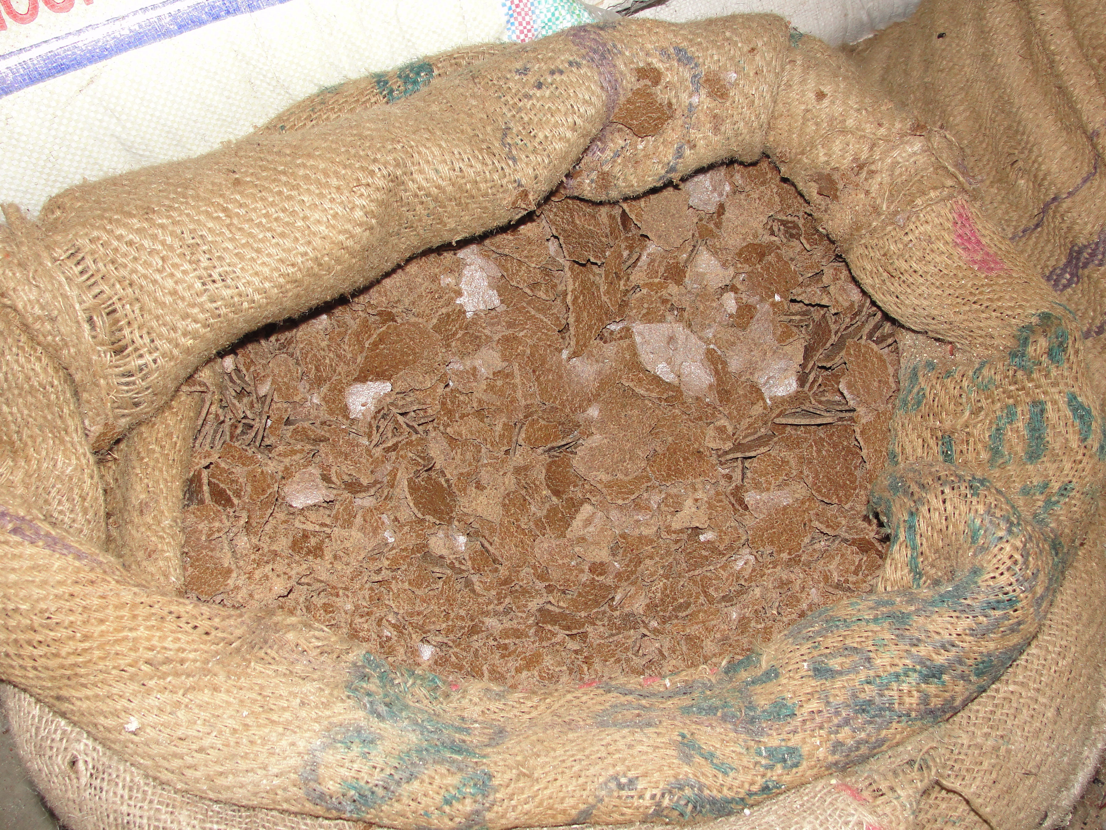 This picture depicting the pea nut oil cake. Oil cake made of the residue of oil seeds; oilcake left in the oil-press after oil extraction. Re fuse after pressing, of cocoa-nuts, rape seed, &ccoconut; oil-cake. This is used as a cattle feed